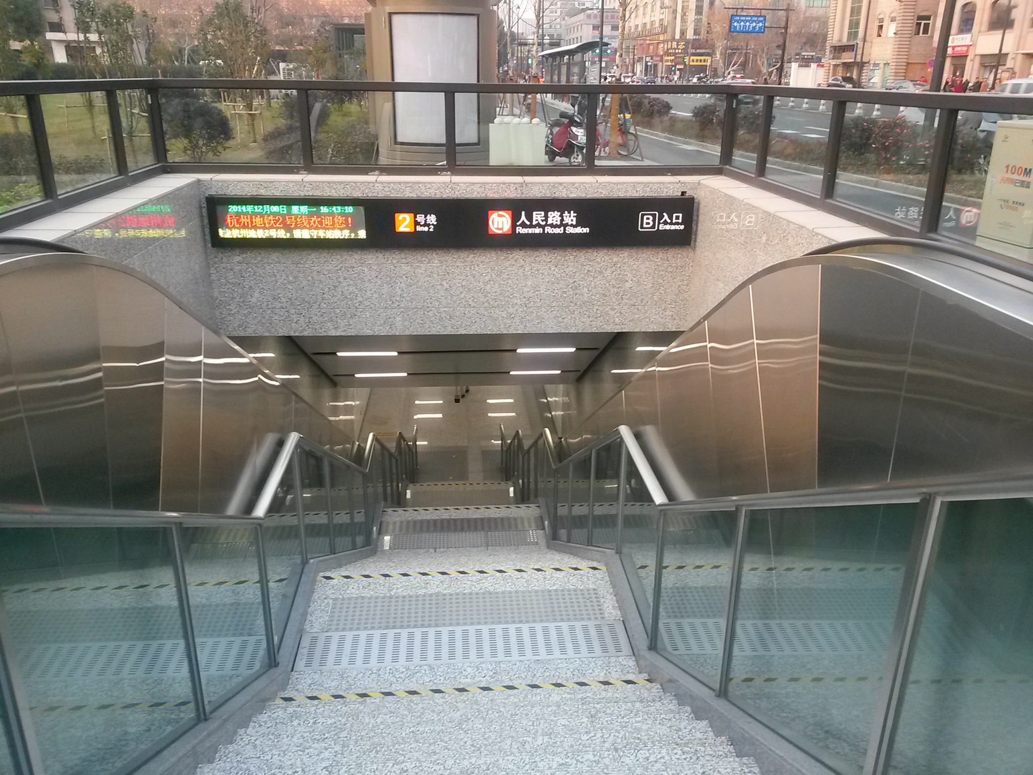 Renmin Road Station (Hangzhou)